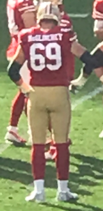 Mike McGlinchey in 2018